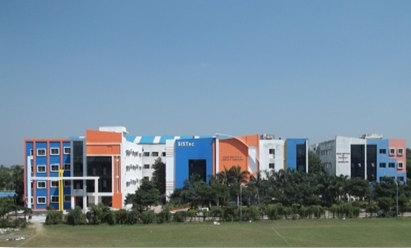 SISTec, Gandhinagar Campus